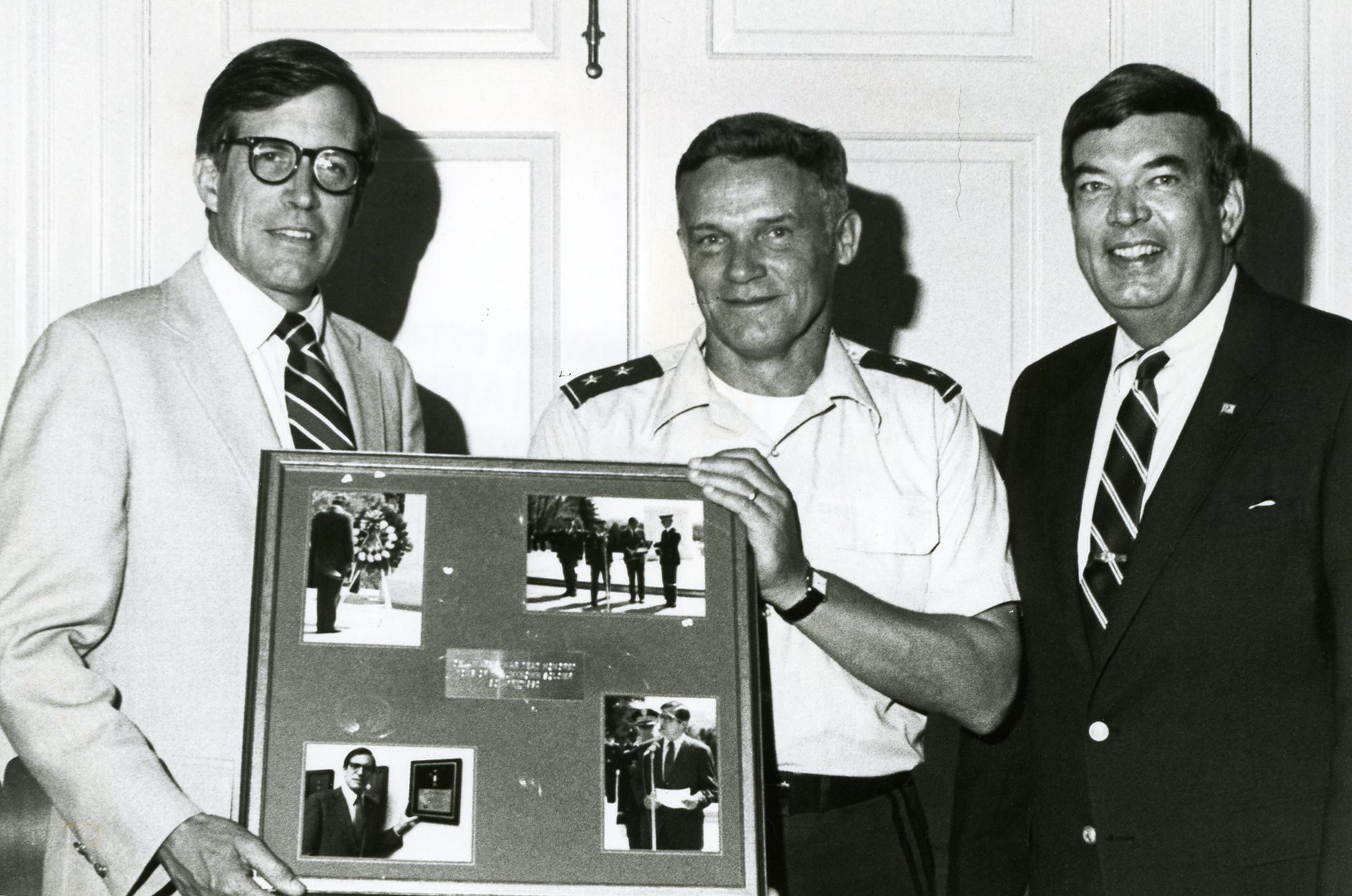 Governor Pete du Pont IV stands with the Adjutant of the Delaware Army National Guard and Representative Brad Barnes.